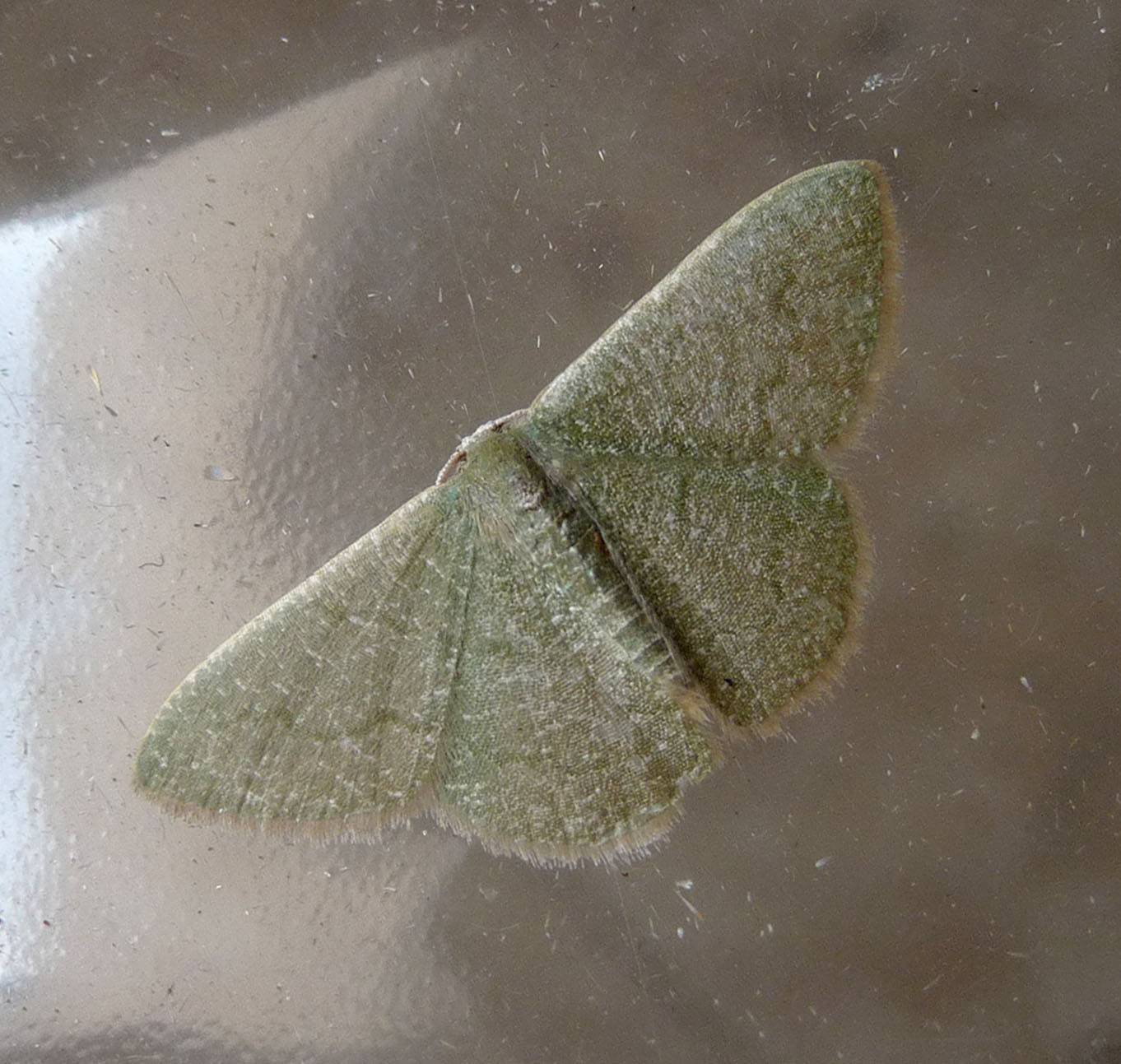 Geometridae. Geometrinae. Hemithein. Phaiogramma faustinata